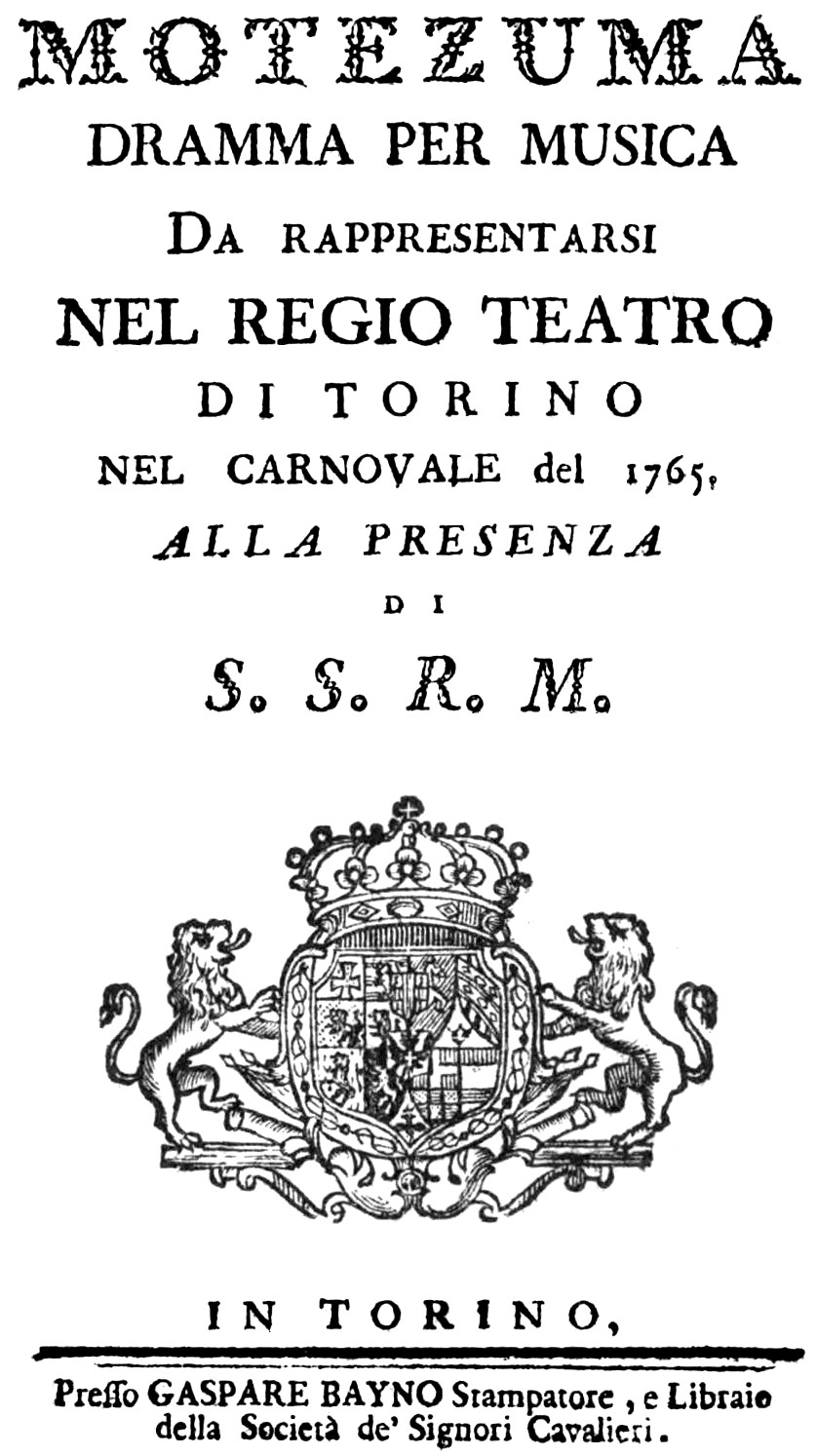 Gian Francesco de Majo - Motezuma - titlepage of the libretto from 1765